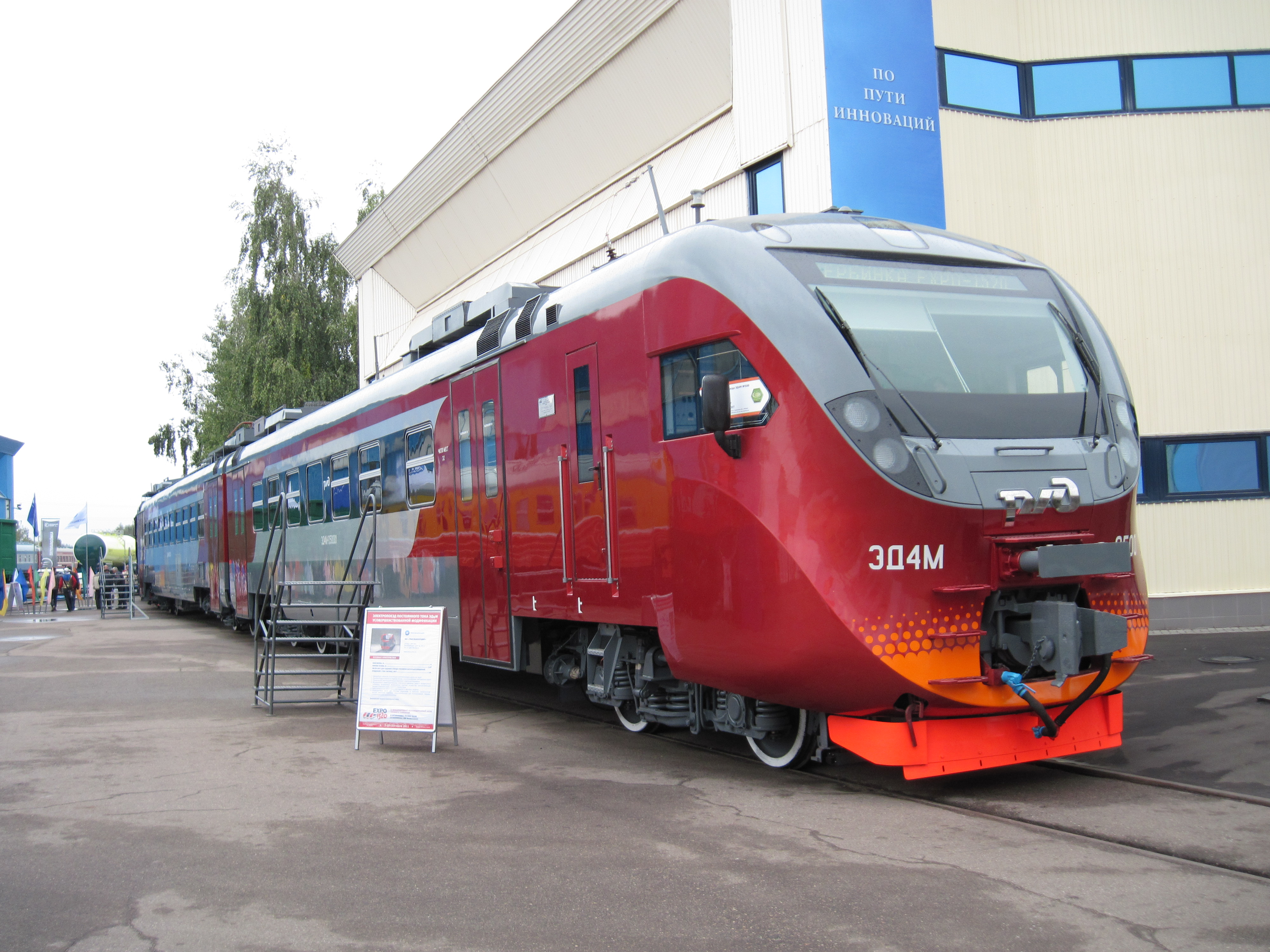 Electric multiple unit ED4M-0500 at railroad test ring complex in Scherbinka.